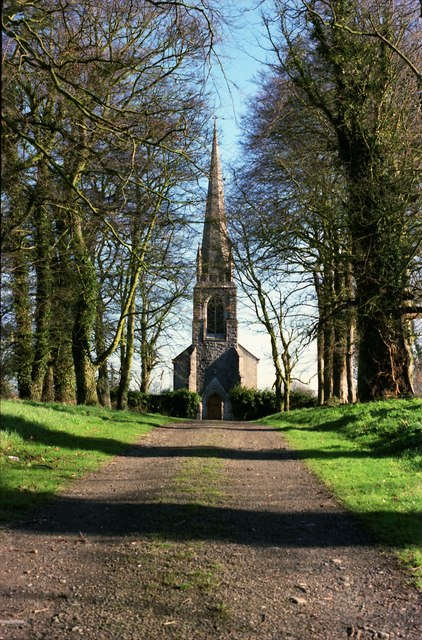 St. Fechin's Church, Termonfeckin, Co. Louth Church of Ireland church built 1792 to a design by Francis Johnston, spire added in 1904